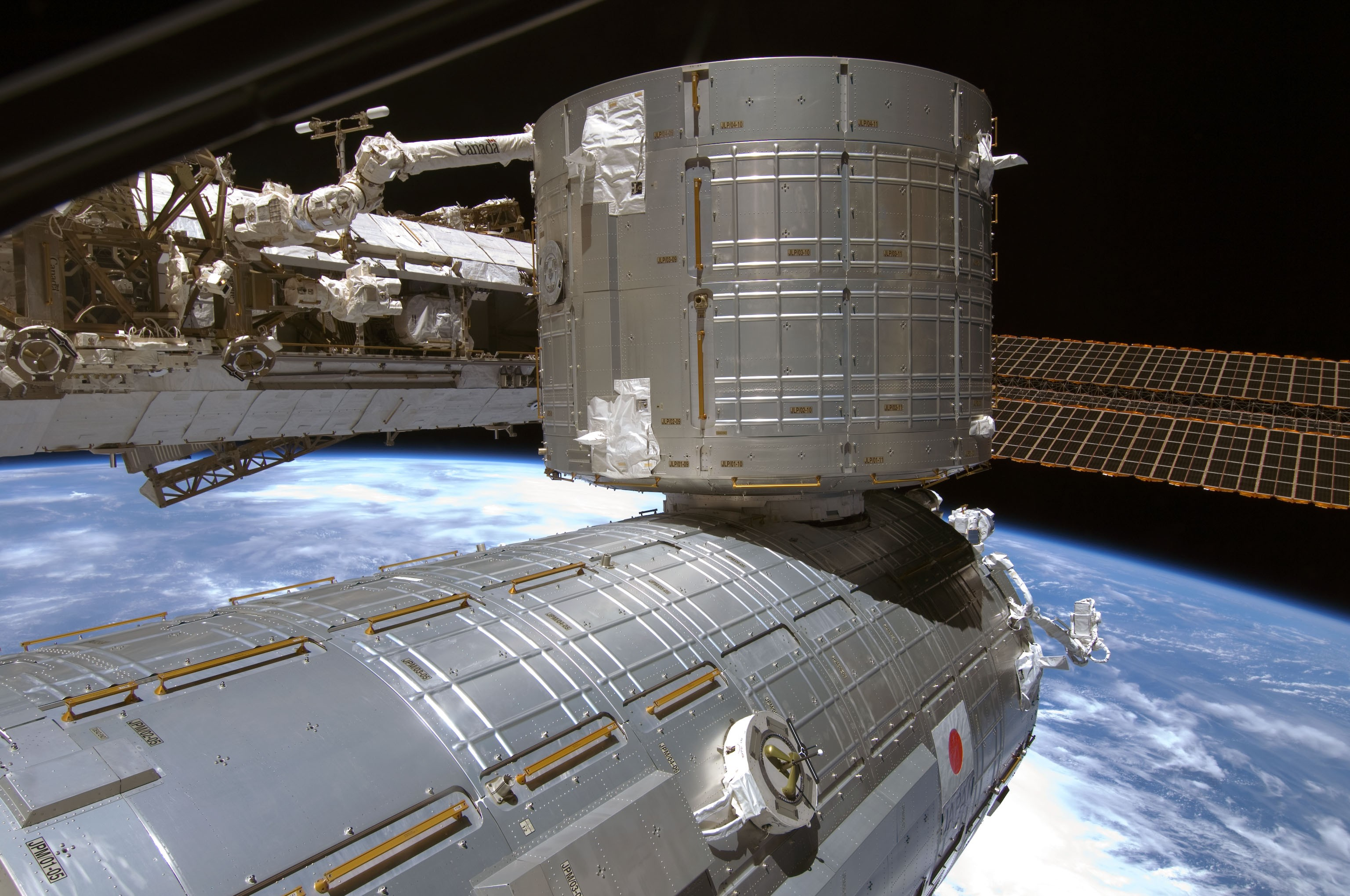 The Kibo Japanese Pressurized Module and Kibo Japanese logistics module of the International Space Station are featured in this image photographed by a STS-124 crewmember while Space Shuttle Discovery is docked with the station. The blackness of space and Earth's horizon provide the backdrop for the scene.